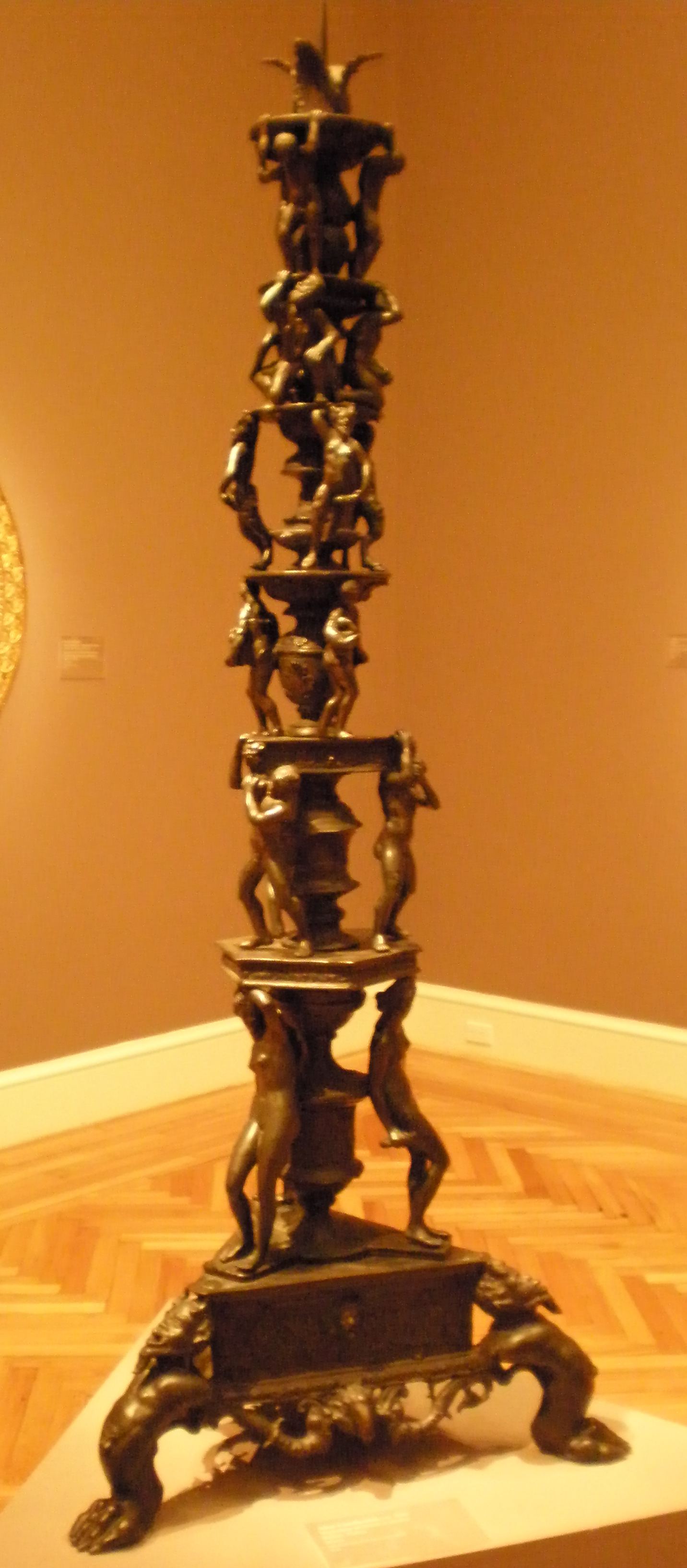 An Italian bronze altar candlestick from Padua, ca. 1550, by the workshop of Severo Calzetta da Ravenna. On display at the California Palace of the Legion of Honor in San Francisco. 61.35